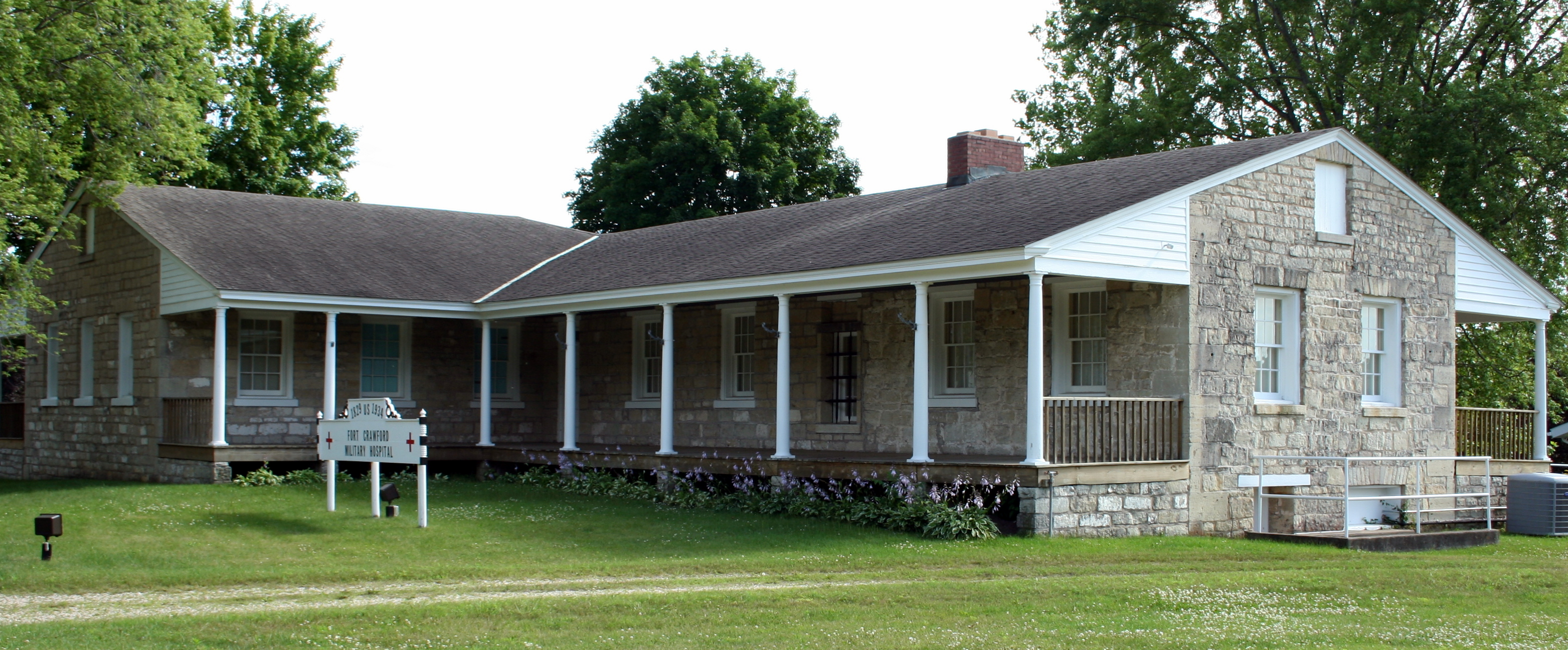 Fort Crawford Museum on South Beaumont Road in Prairie du Chien, Wisconsin